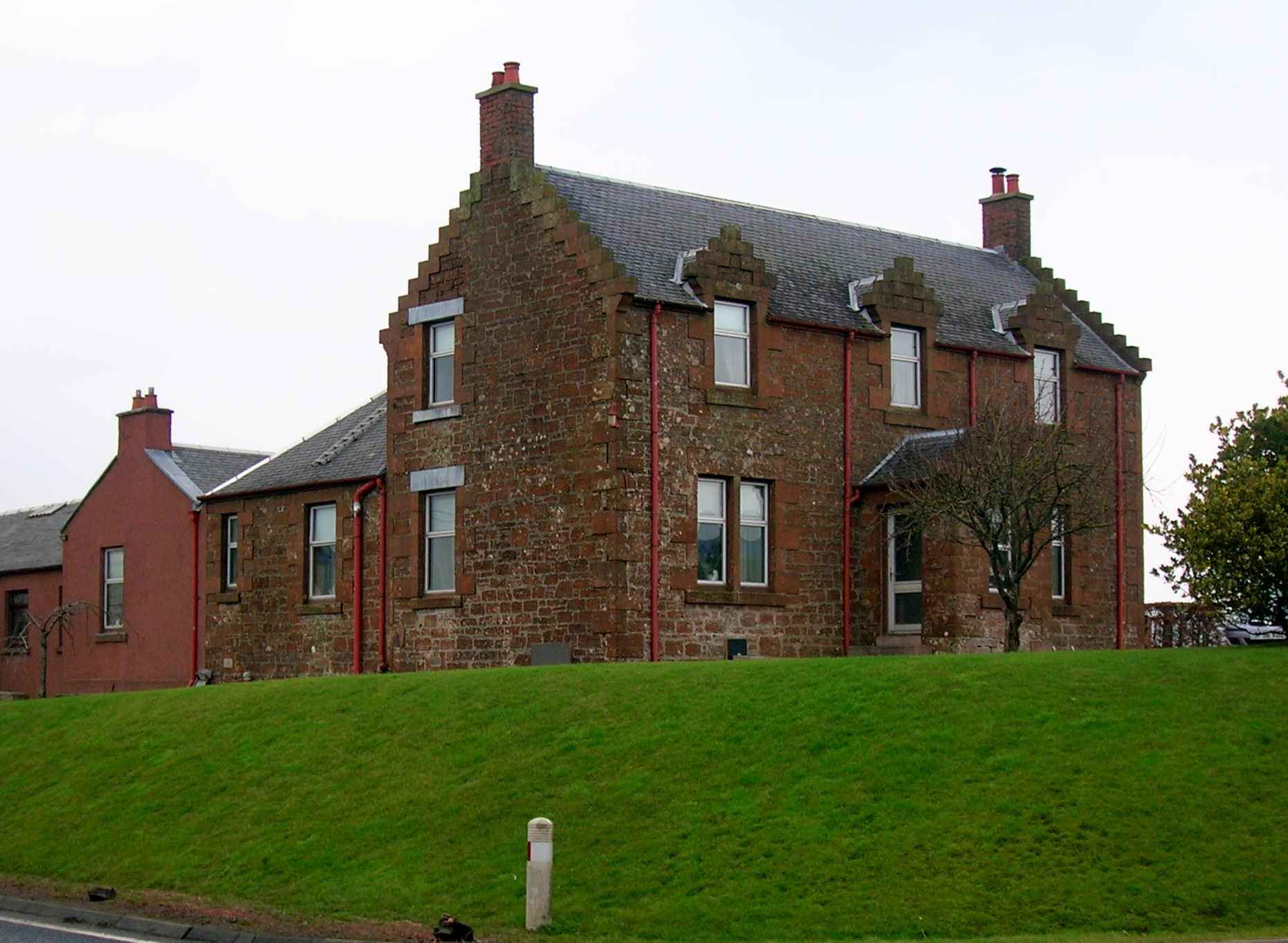 Borland Mains Farm from the main road. New Cumnock, East Ayrshire, Scotland.